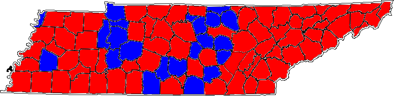 1994 Tennessee Senate election results by county.